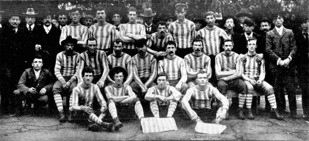 Team of North Melbourne FC , premiers